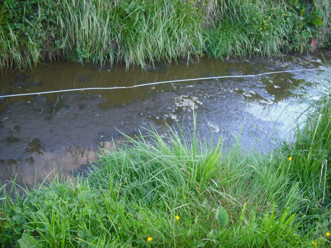 Dairy discharge creating water pollution